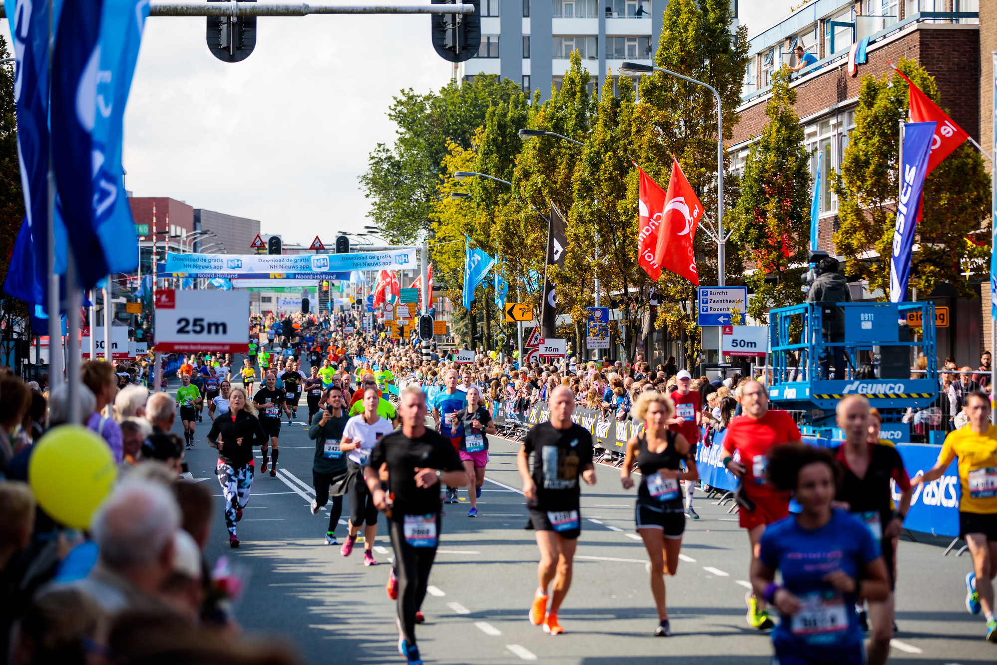 Dam tot Damloop 2017